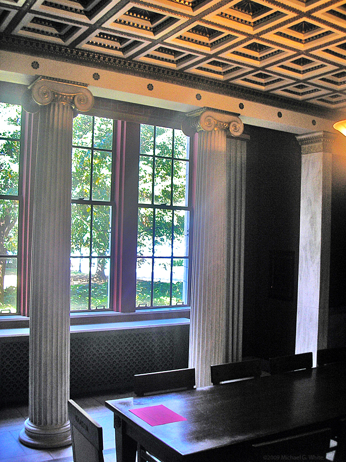 The Greek Nationality Room in the Cathedral of Learning at the University of Pittsburgh